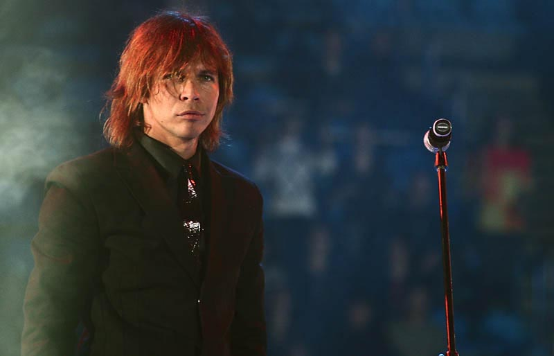 Ilia Lagutenko